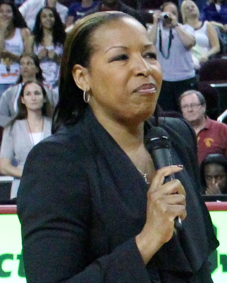 Cynthia Cooper-Dyke speaks at the University of Southern California's Galen Center as USC retired her #44 jersey on March 6, 2011.